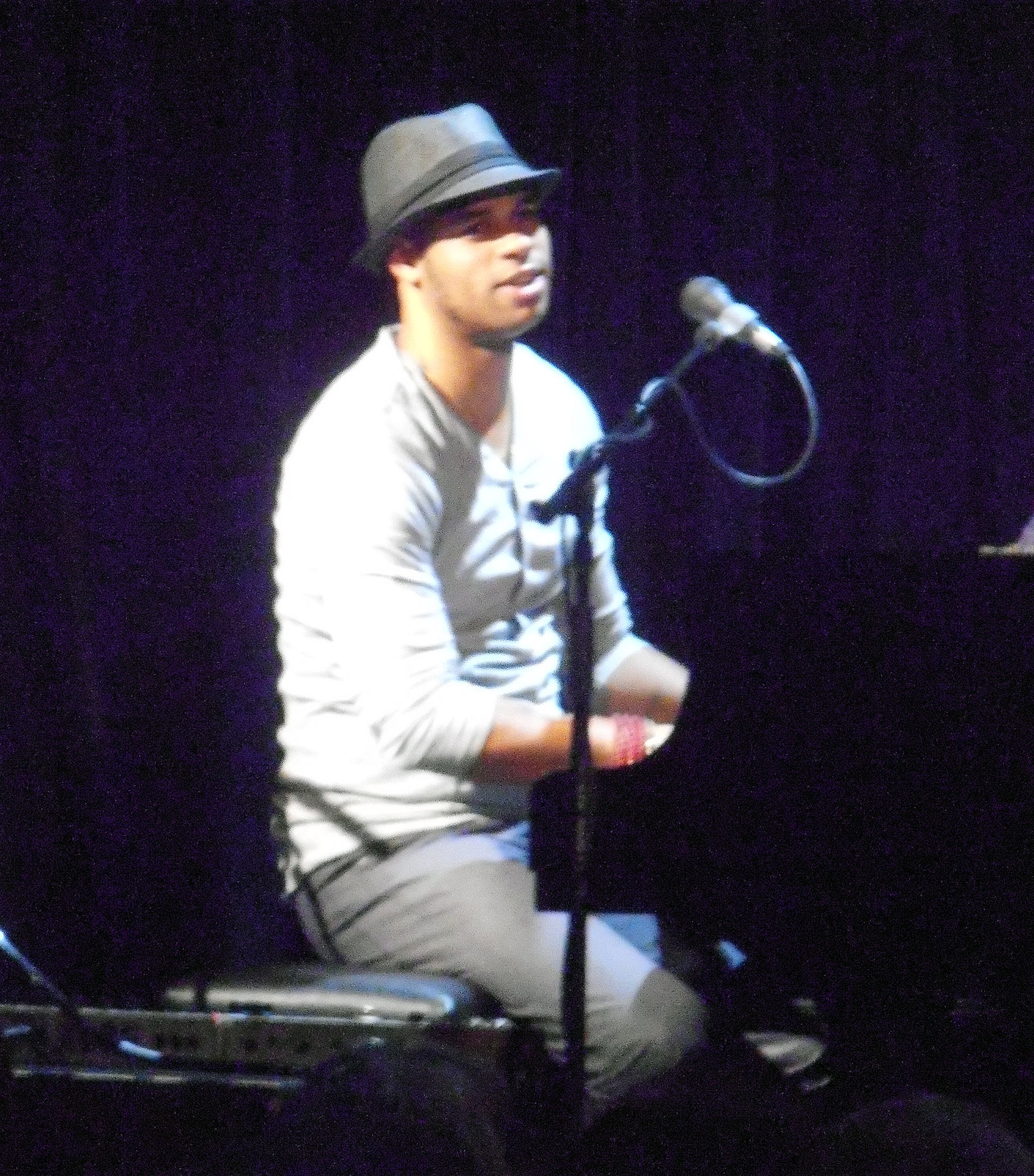 Roberto Fonseca, Treibhaus Innsbruck 2012